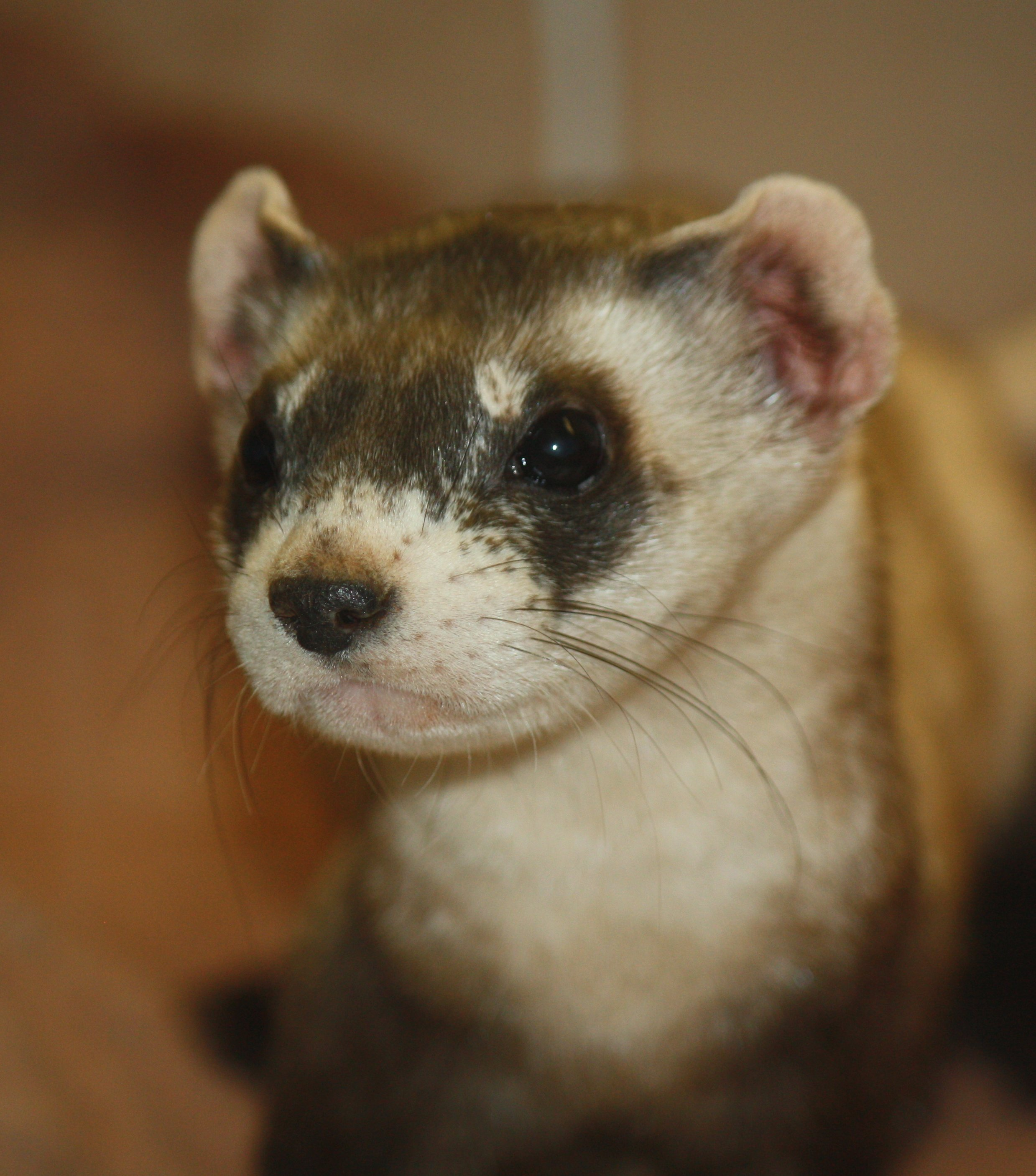 Black-footed Ferret Mustela nigripes at Louisville Zoo